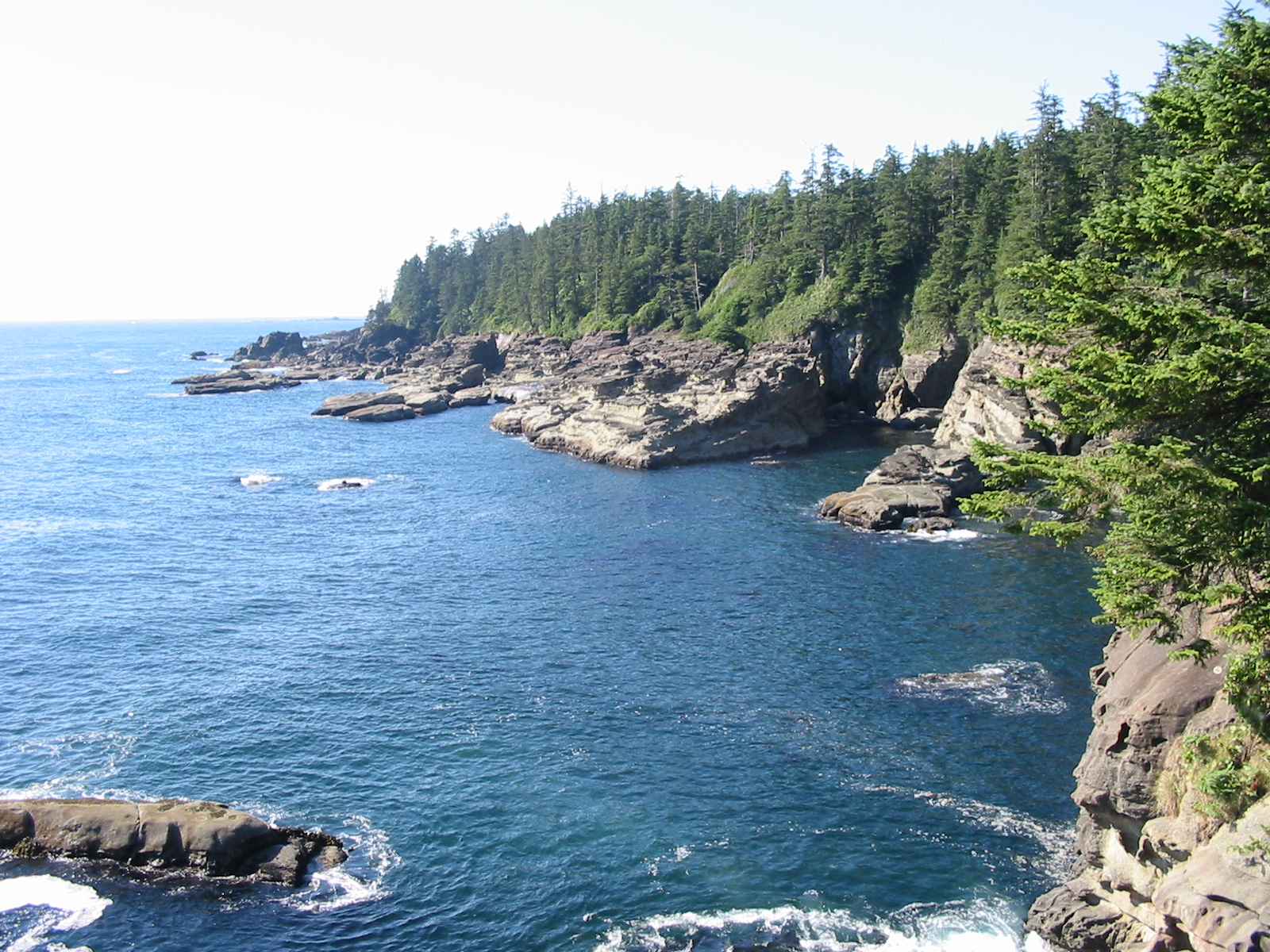 Another picture I took of the West Coast Trail.